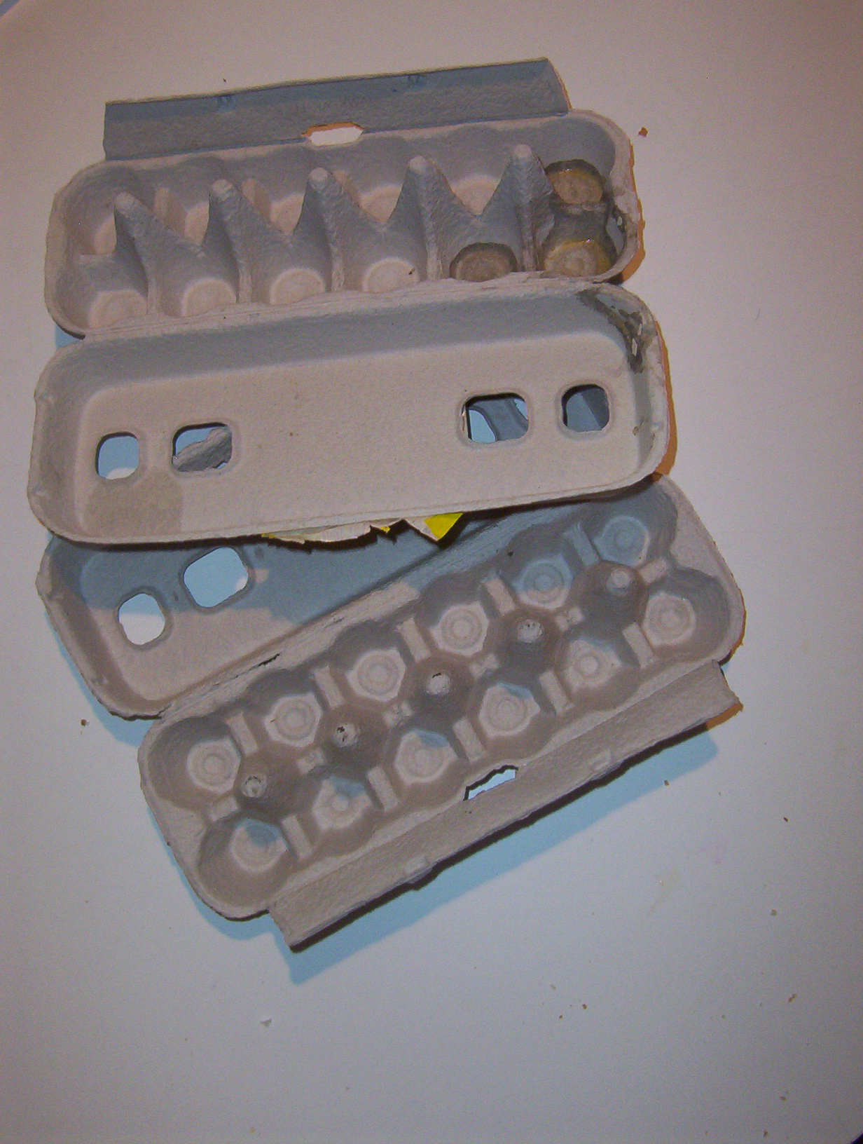 A picture, of a Egg Carton taken with a digital camera. Taken: 14/8/2006 Taken By: User: Dfrg.msc Uploaded on: 14/8/2006 Uploader: User: Dfrg.msc Feel free to use this image anywhere and in anyway.